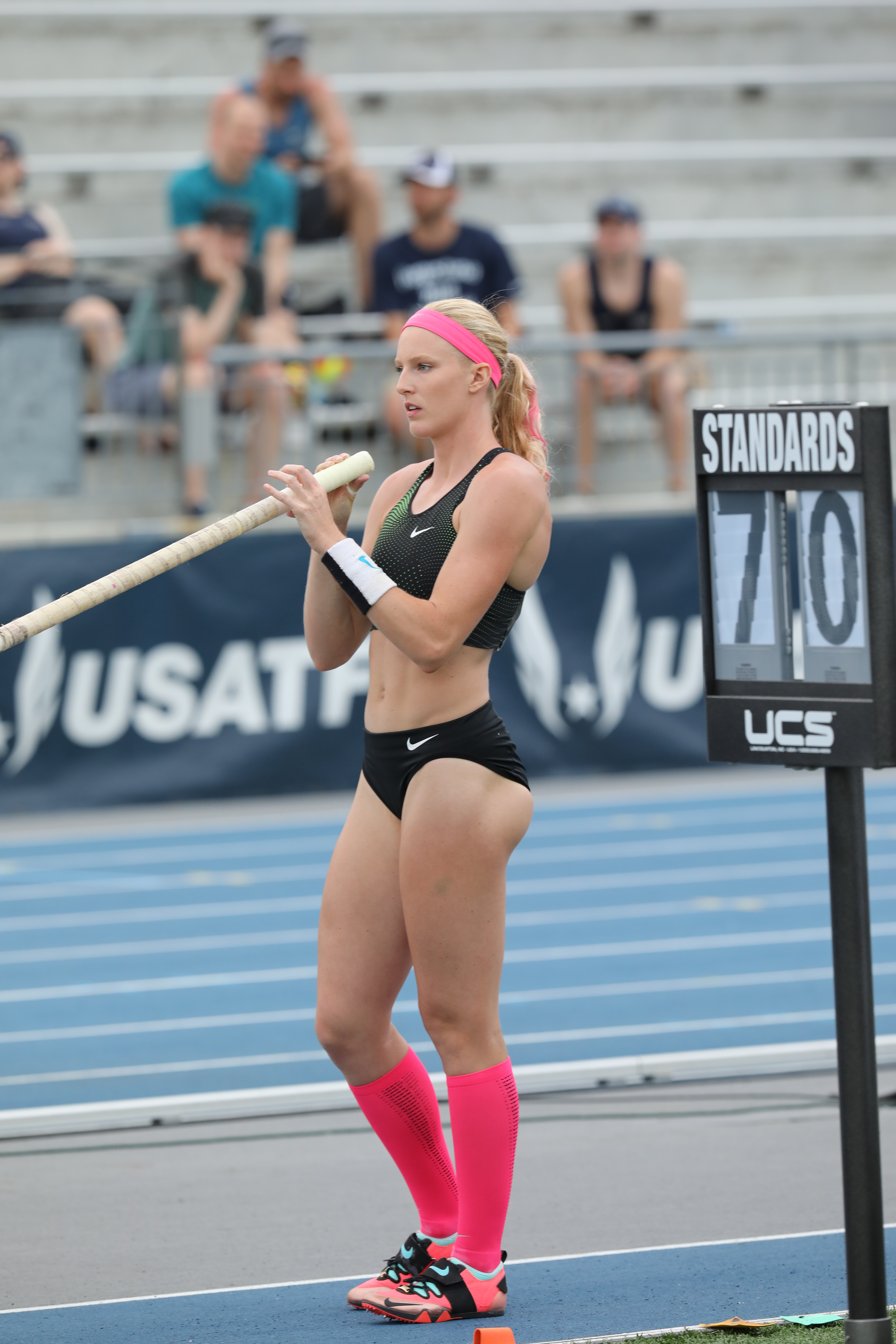 2018 USA Outdoor Track and Field Championships